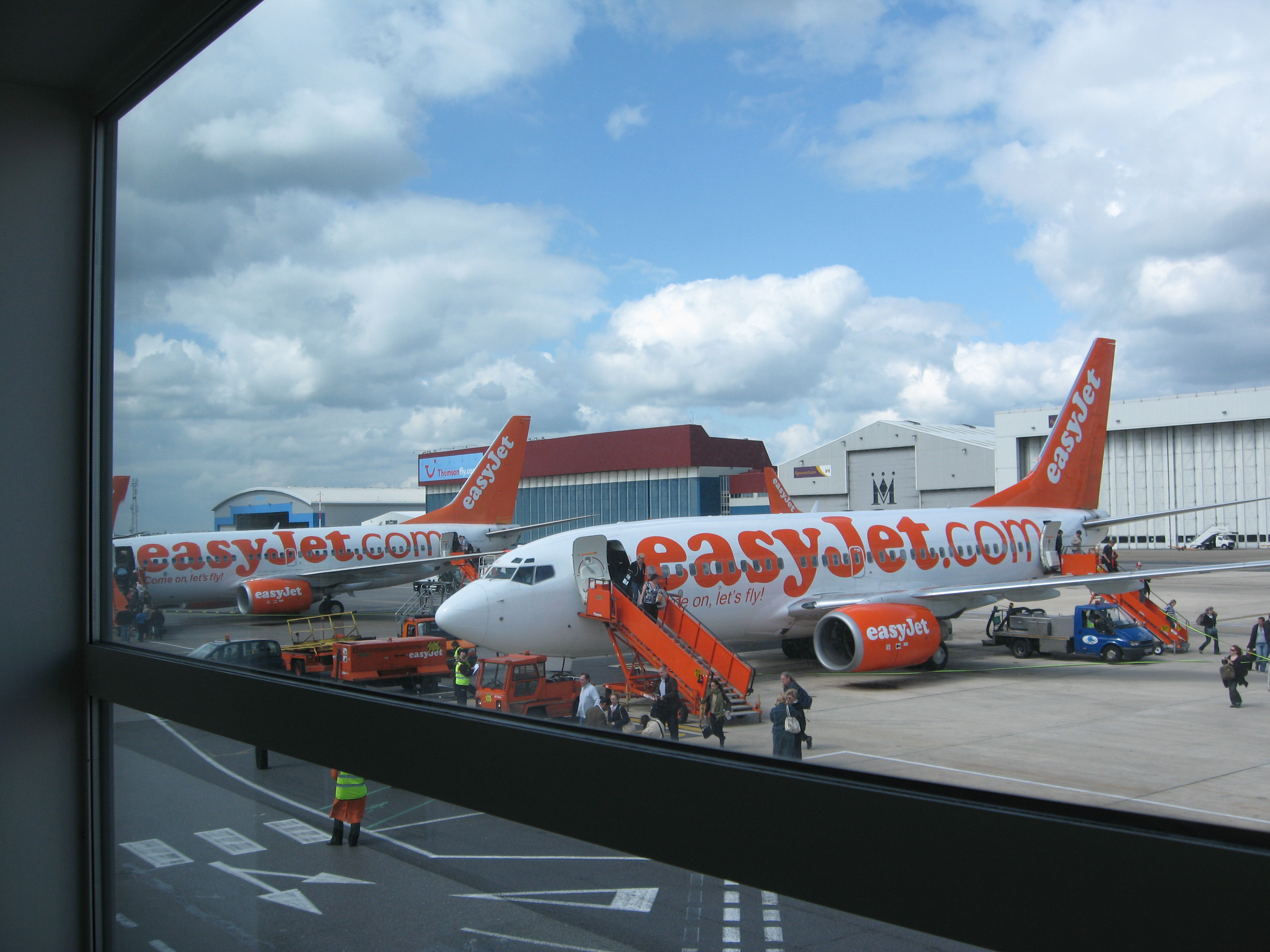 Easyjet plane at Luton airport.